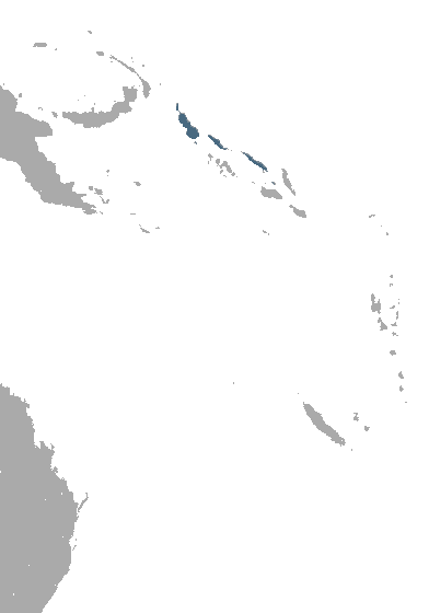 Woodford's Fruit Bat (Melonycteris woodfordi) range